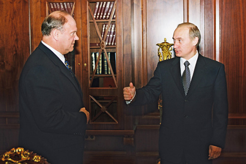 THE KREMLIN, MOSCOW. With the head of the Communist Party faction in the State Duma Gennady Zyuganov.